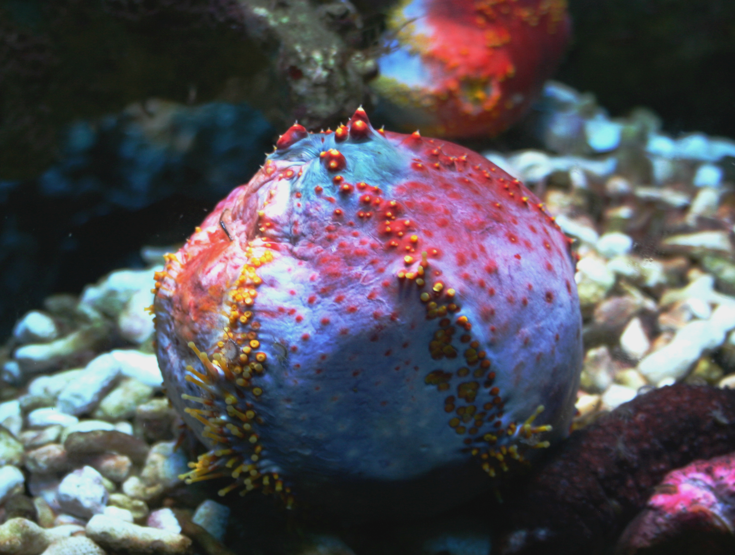 Sea cucumber Paracucumaria tricolor in Prague sea aquarium, Czech Republic